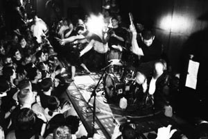 Photographer: Andy McKay (original uploader) Subject: Kid Dynamite